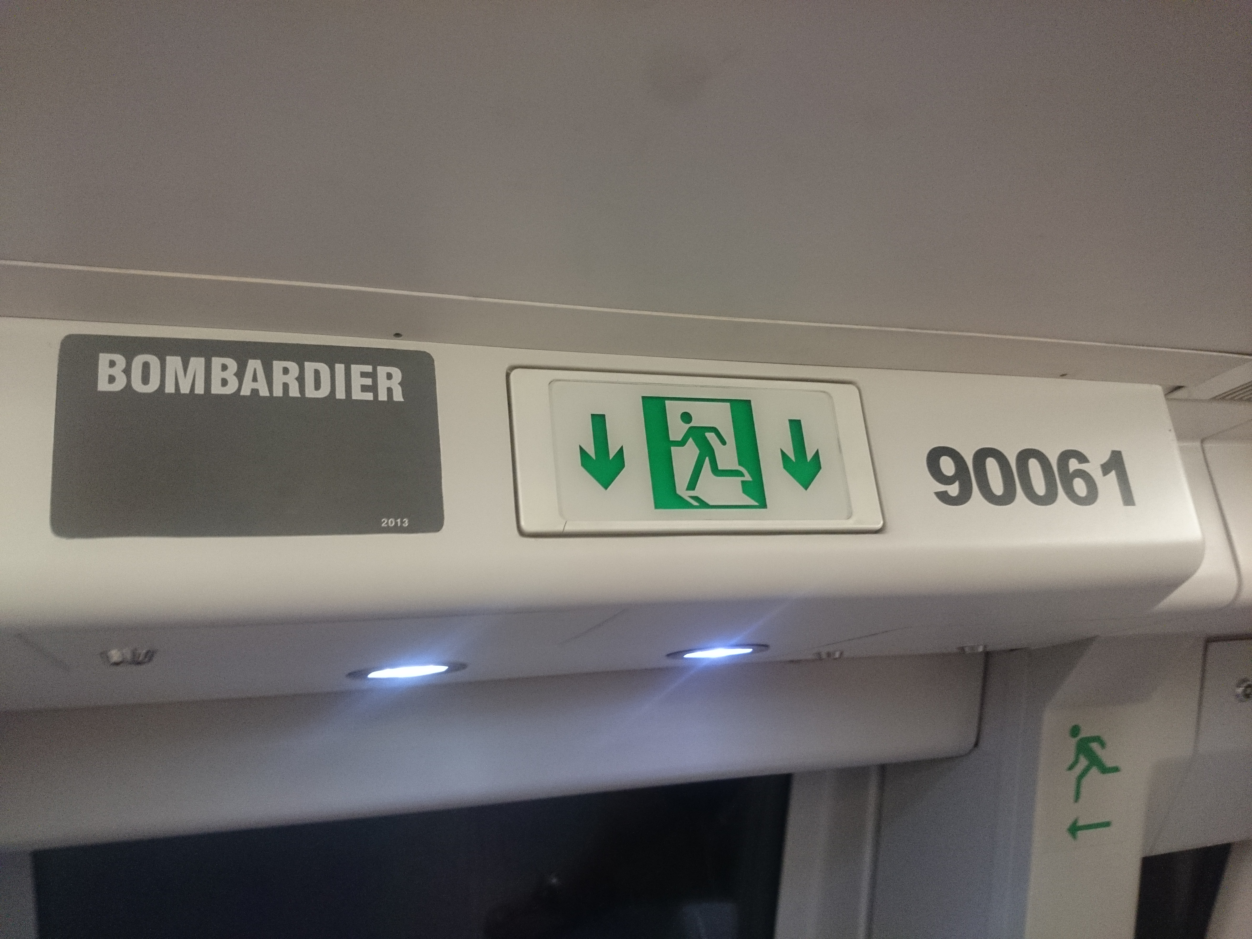 Label in C951 train, showing logo of BOMBARDIER.